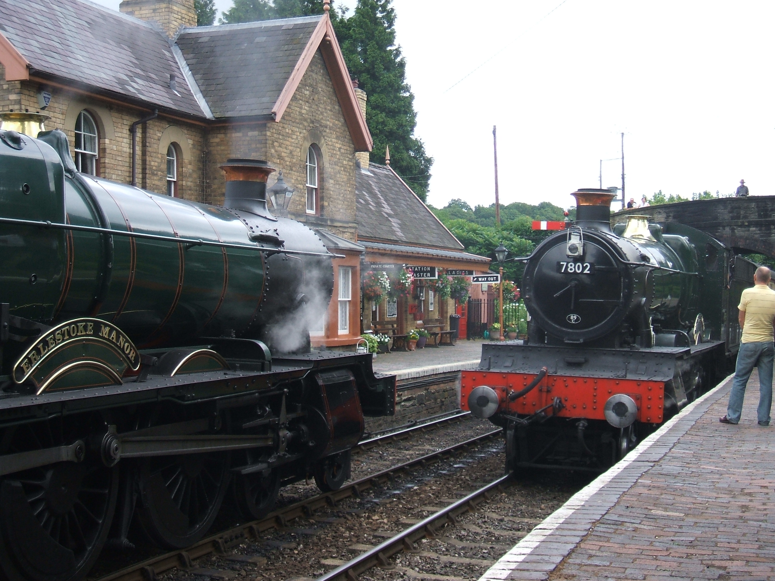 A picture of erlestoke manor and Bradley Manor at the SVR Station Arley